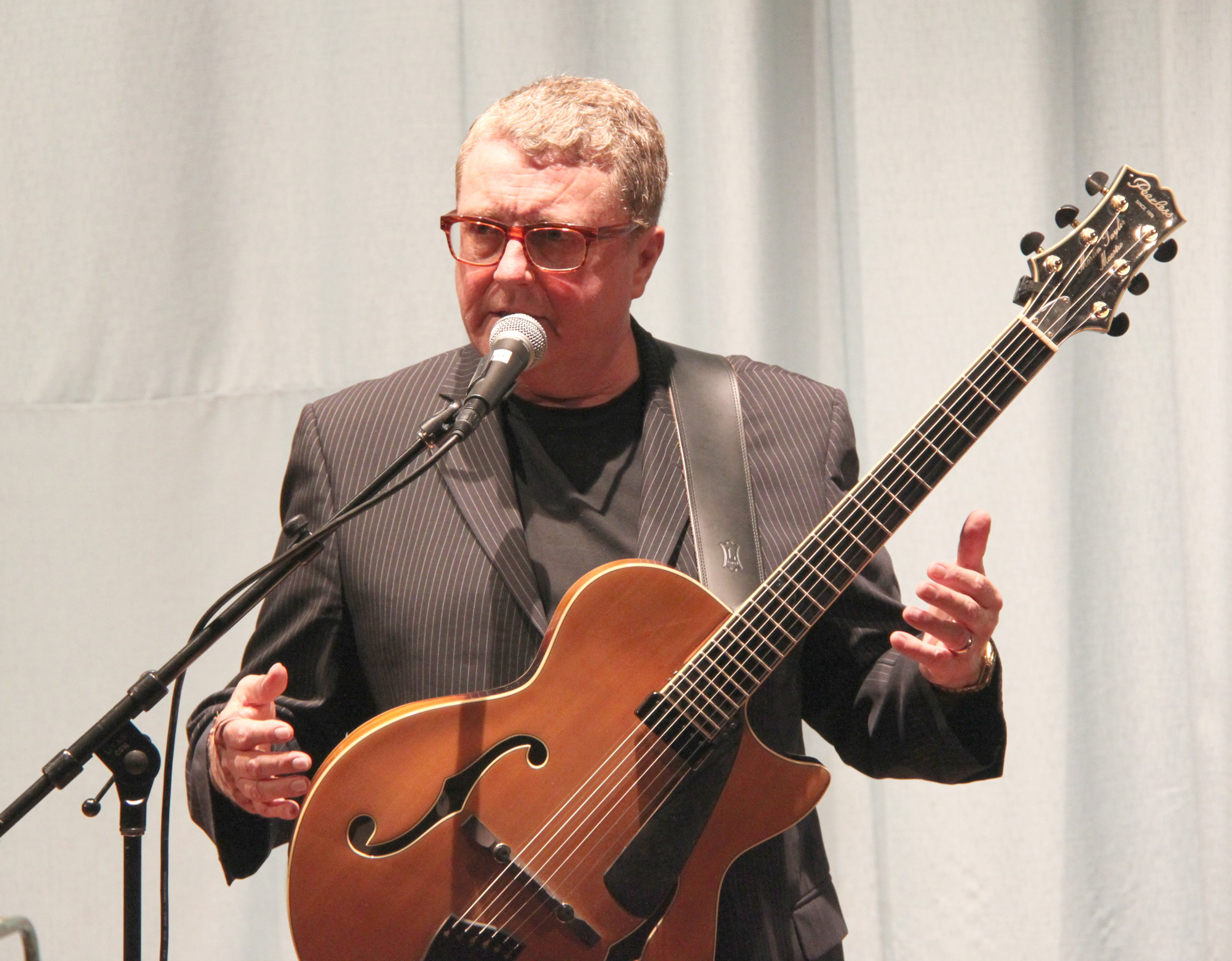 Martin Taylor (UK jazz guitarist) makes a point at a jazz guitar clinic, Hobart, Australia, 2014 (Tony Rees photograph)